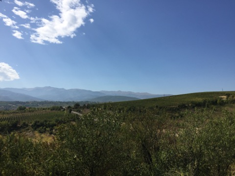 Vineyards in village of Rakotinci